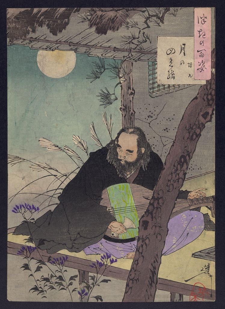 "Print shows Prince Semimaru tuning a lute by the light of a full moon at his mountain retreat on Mount Ausaka."